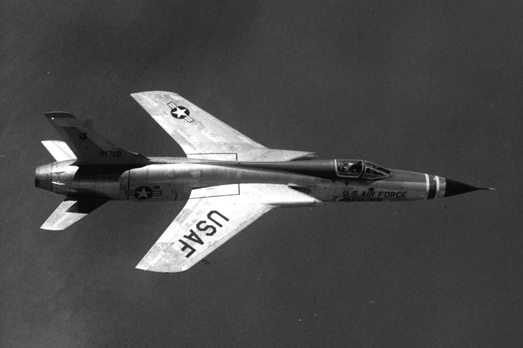 Republic F-105D-5-RE (s/n 59-1719) in flight. This aircraft was shot down over Laos on 16 January 1966 while being assigend to the 354th Tactical Fighter Squadron, 355th Tactical Fighter Wing, Takhli RTAFB. The pilot, Captain Wood, was one of a flight of five F-105s on a photo reconnaissance over Xieng Khouang Province, Laos. While over the target the flight received 37mm antiaircraft fire on their passes over the target, and Captain Wood's plane was suddenly missing. A Pathet Lao source interrogated in Laos in 1974 described the recovery of a U.S. airman who ejected from an aircraft hit by flak from the Pathet Lao Regional Headquarters at Phou Kout. The airman reportedly died shortly after capture.